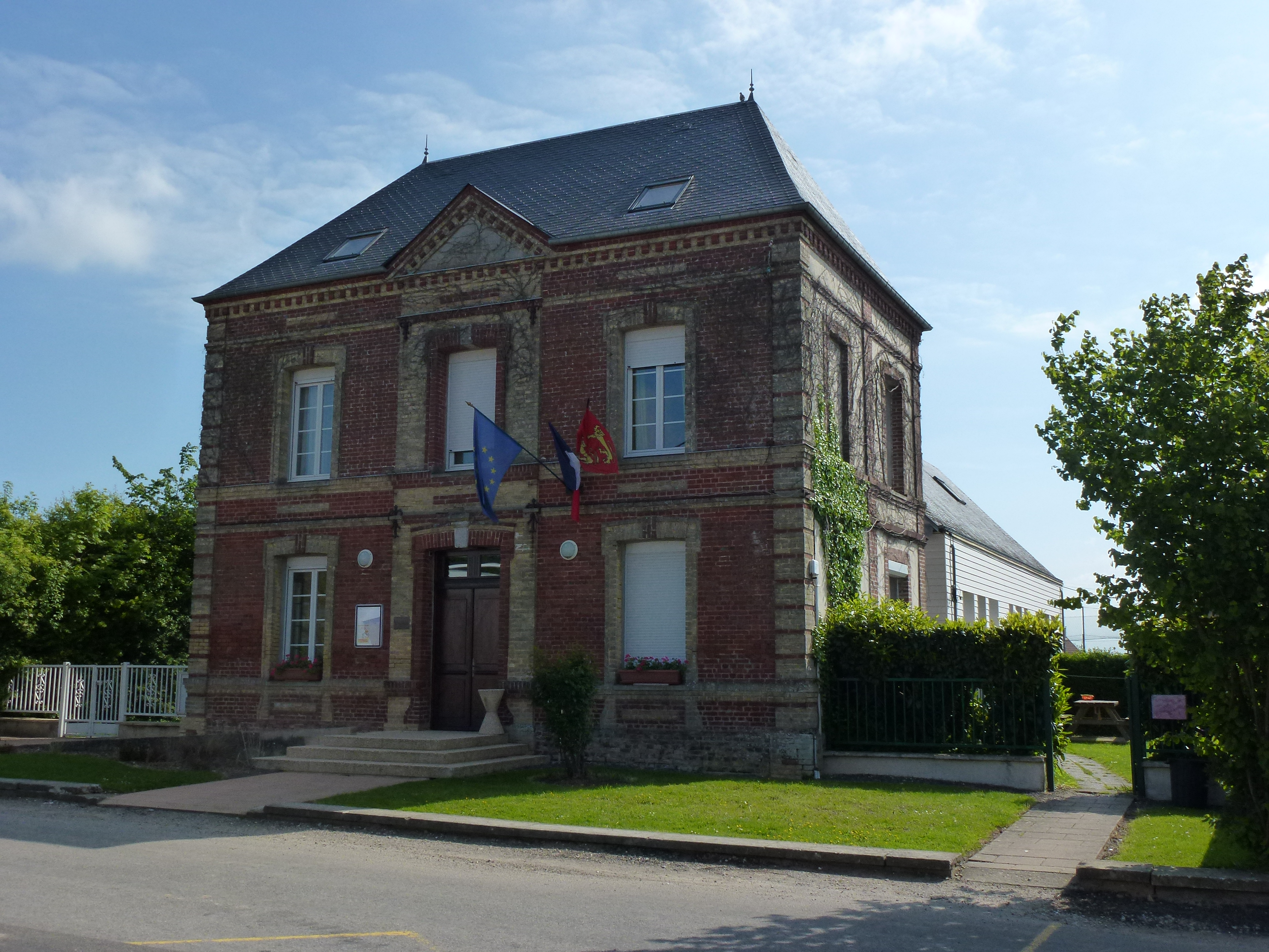 Saint-Éloi-de-Fourques (Eure, Fr) mairie